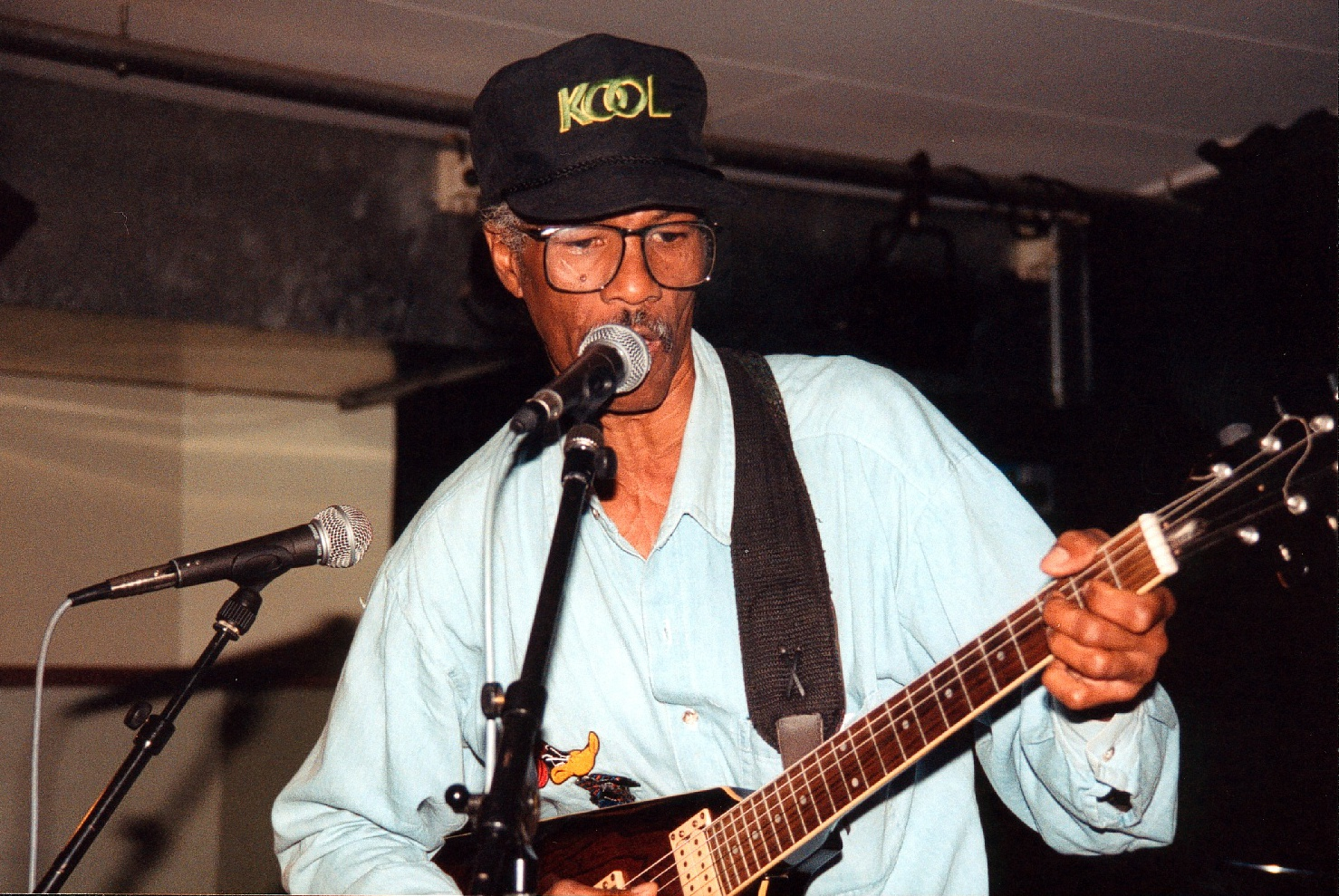 Fillmore Slim, Utrecht, Holland 2003 Utrecht Blues Estafette